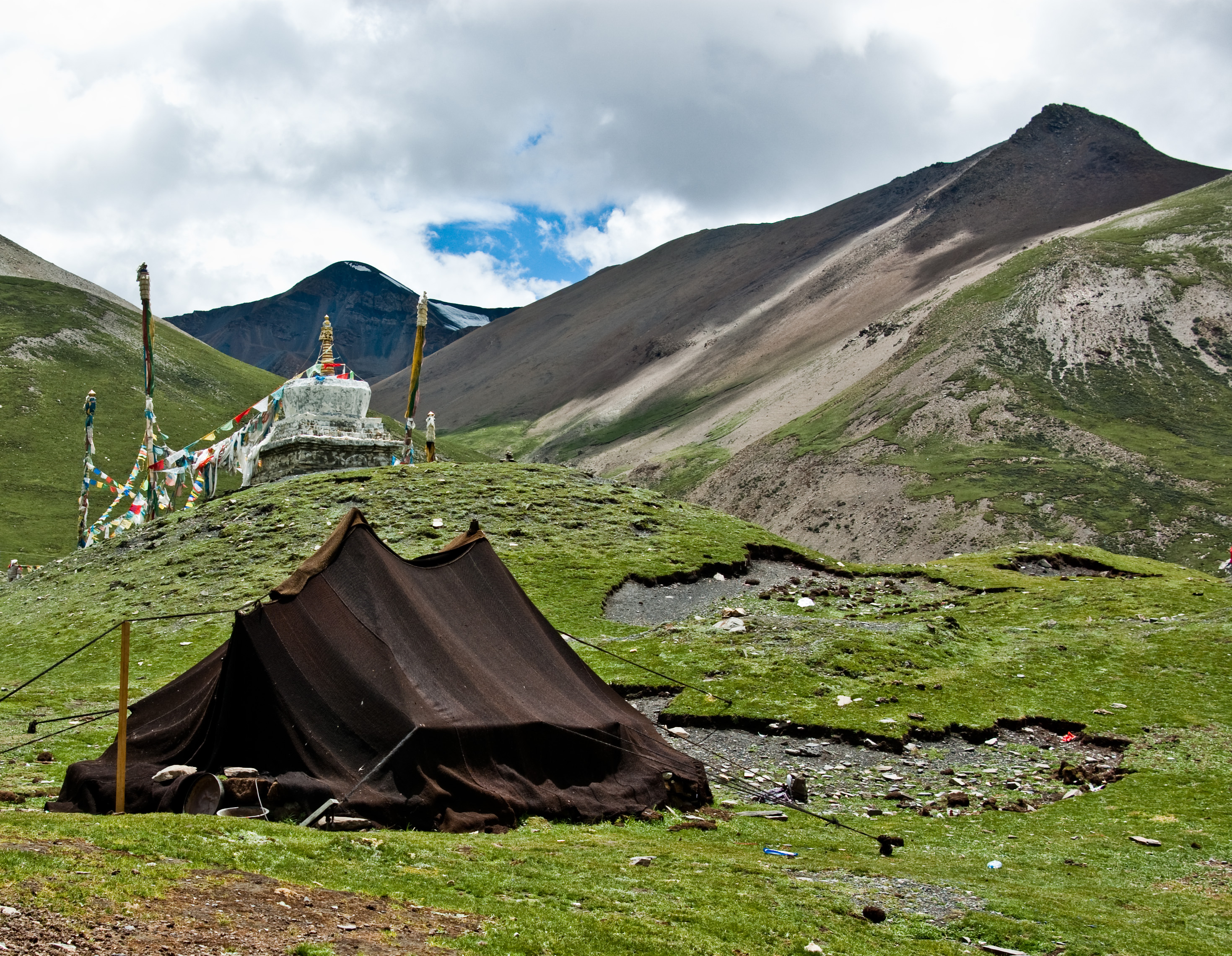 tent of nomads in Tibet